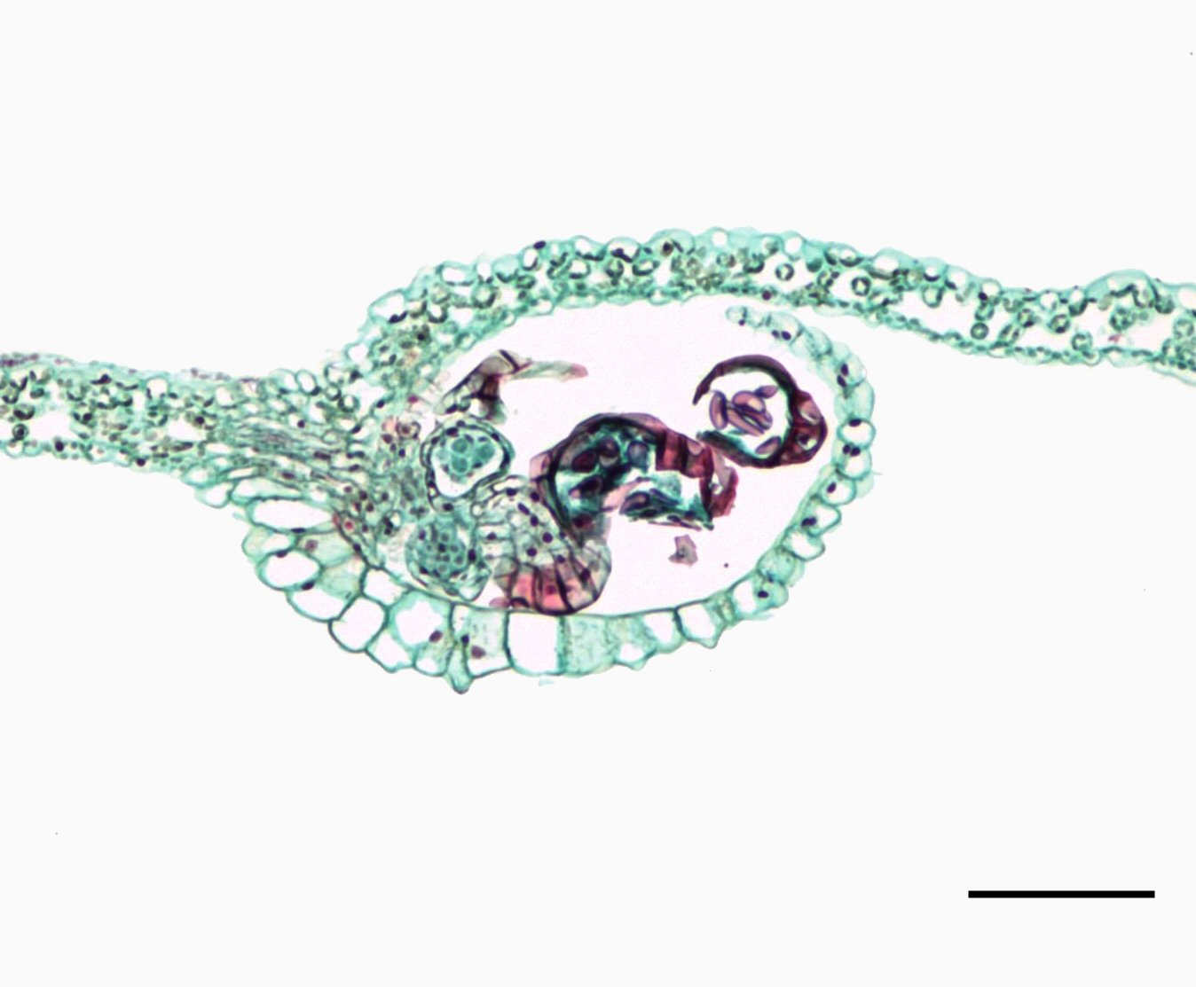 Cross section of a Asplenium sorus. Scale=0.35mm.